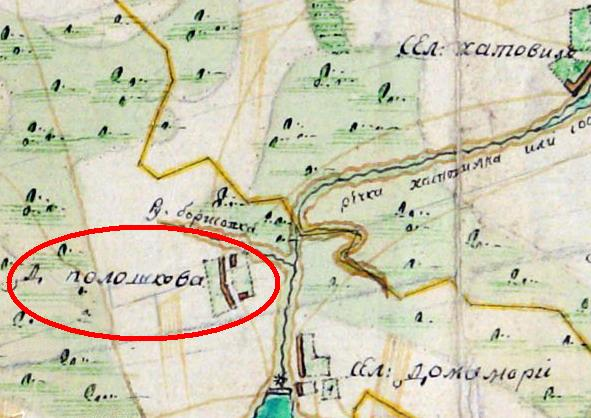 Village of Poloshkovo (Klimavichy Raion, Belarus) on the old Russian map (1783)